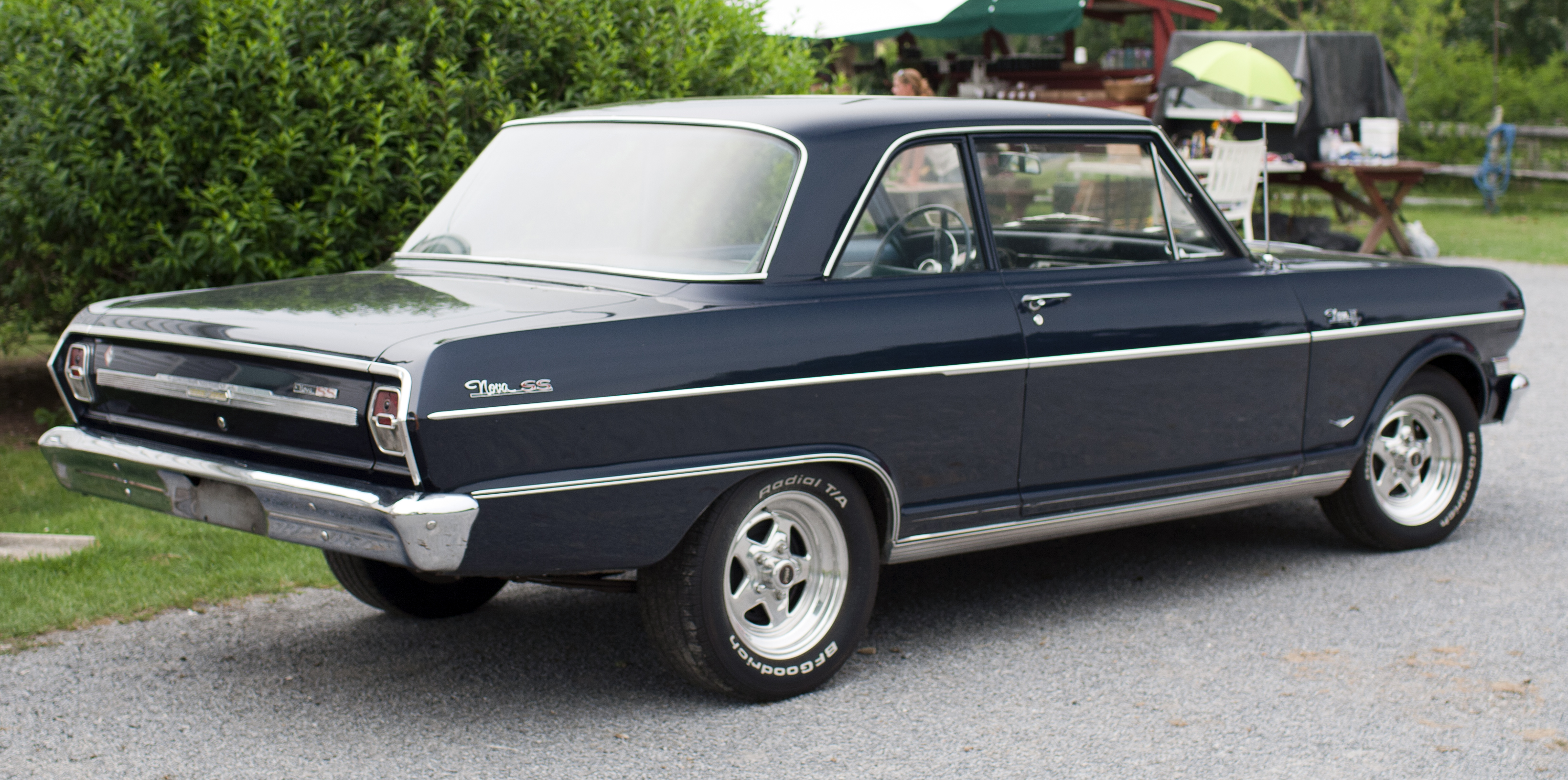 1964 Chevrolet Chevy II Nova 400 2-door sedan, with aftermarket wheels (and stance!) and incorrect "SS" badging